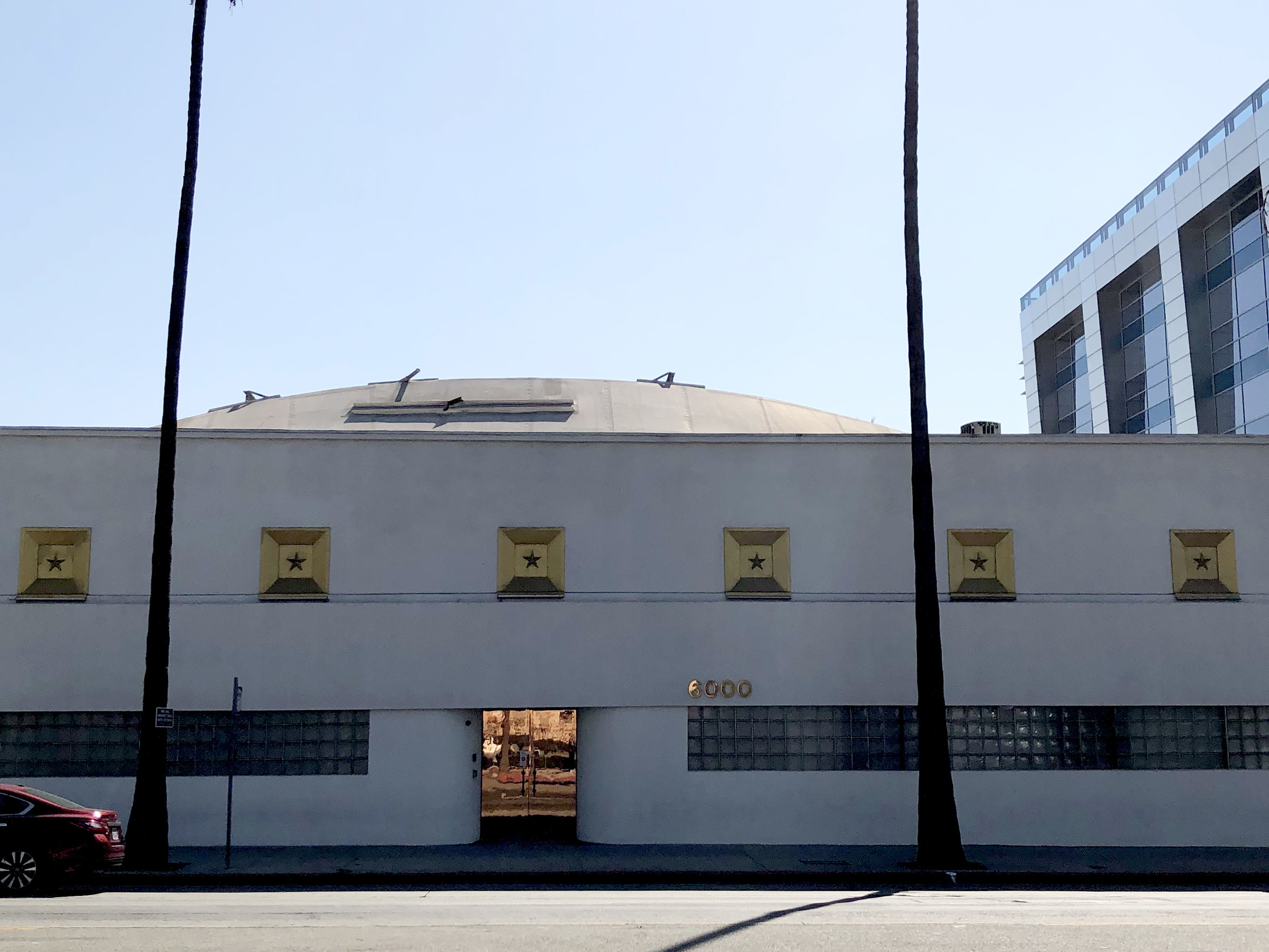 Exterior of EastWest Studios at 6000 Sunset Boulevard in Los Angeles, California. The building was formerly known as Western Studio, as part of United Western Recorders.